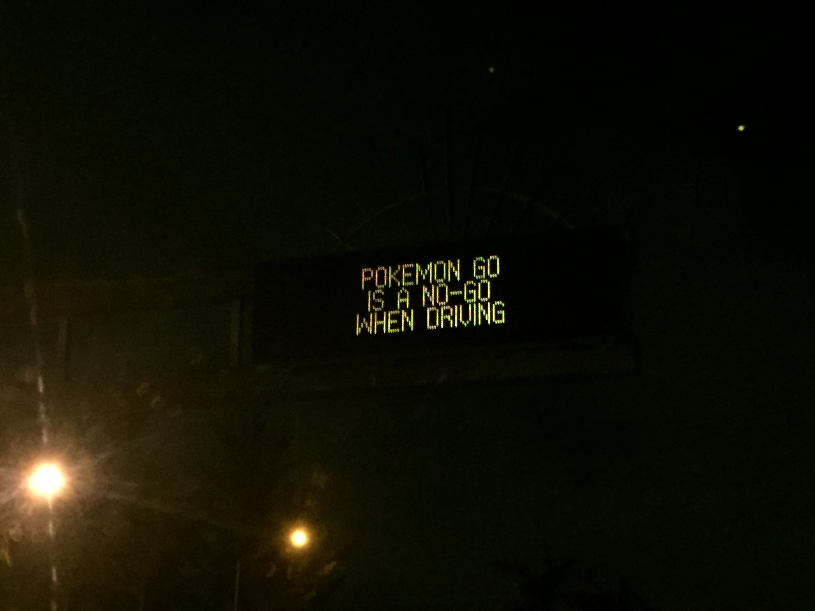 A Variable-message sign along NW 107th avenue near the intersection with NW 12th street in Fontainebleau, Florida, warning people to not play Pokémon Go while driving.